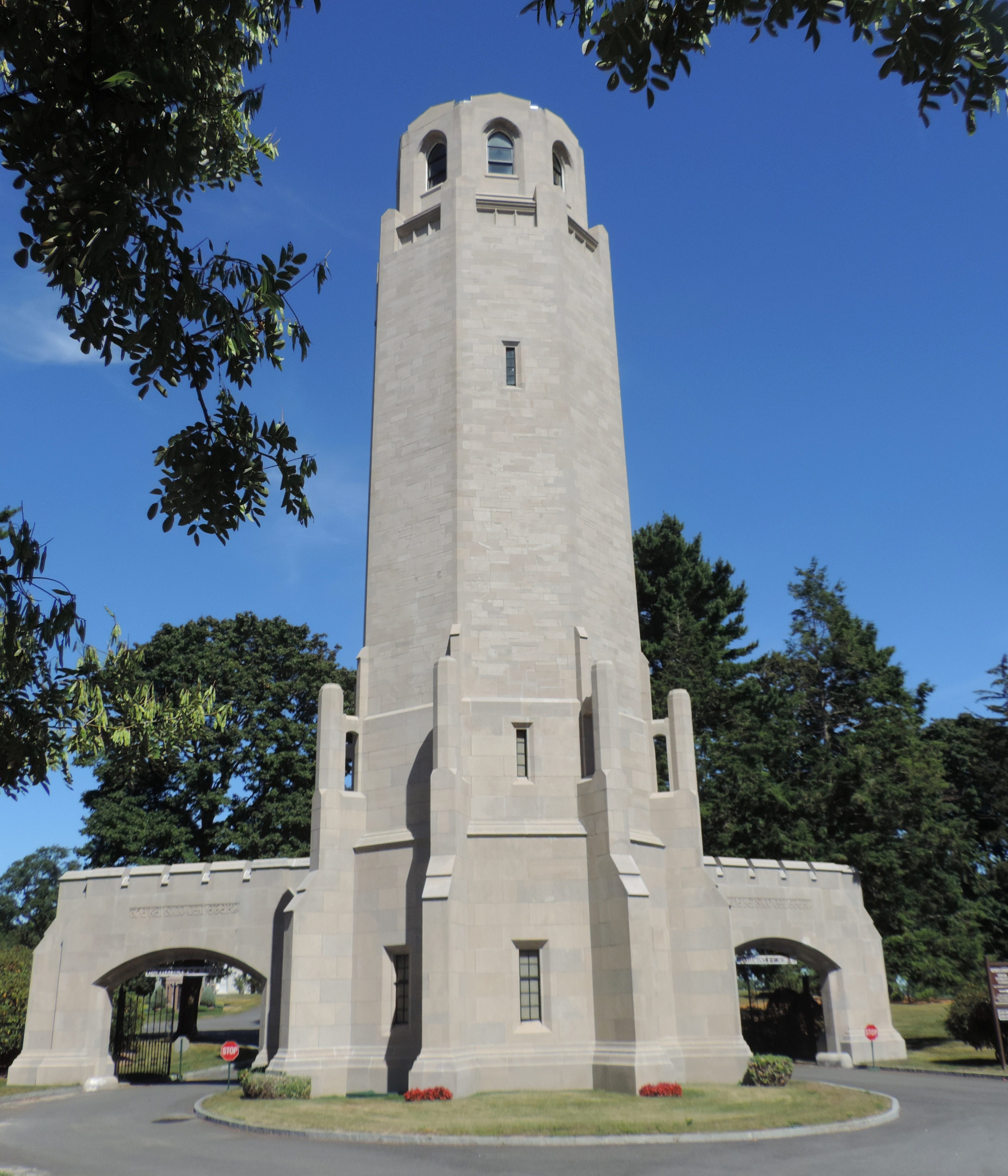 looking northeast at entry tower on a sunny afternoon.